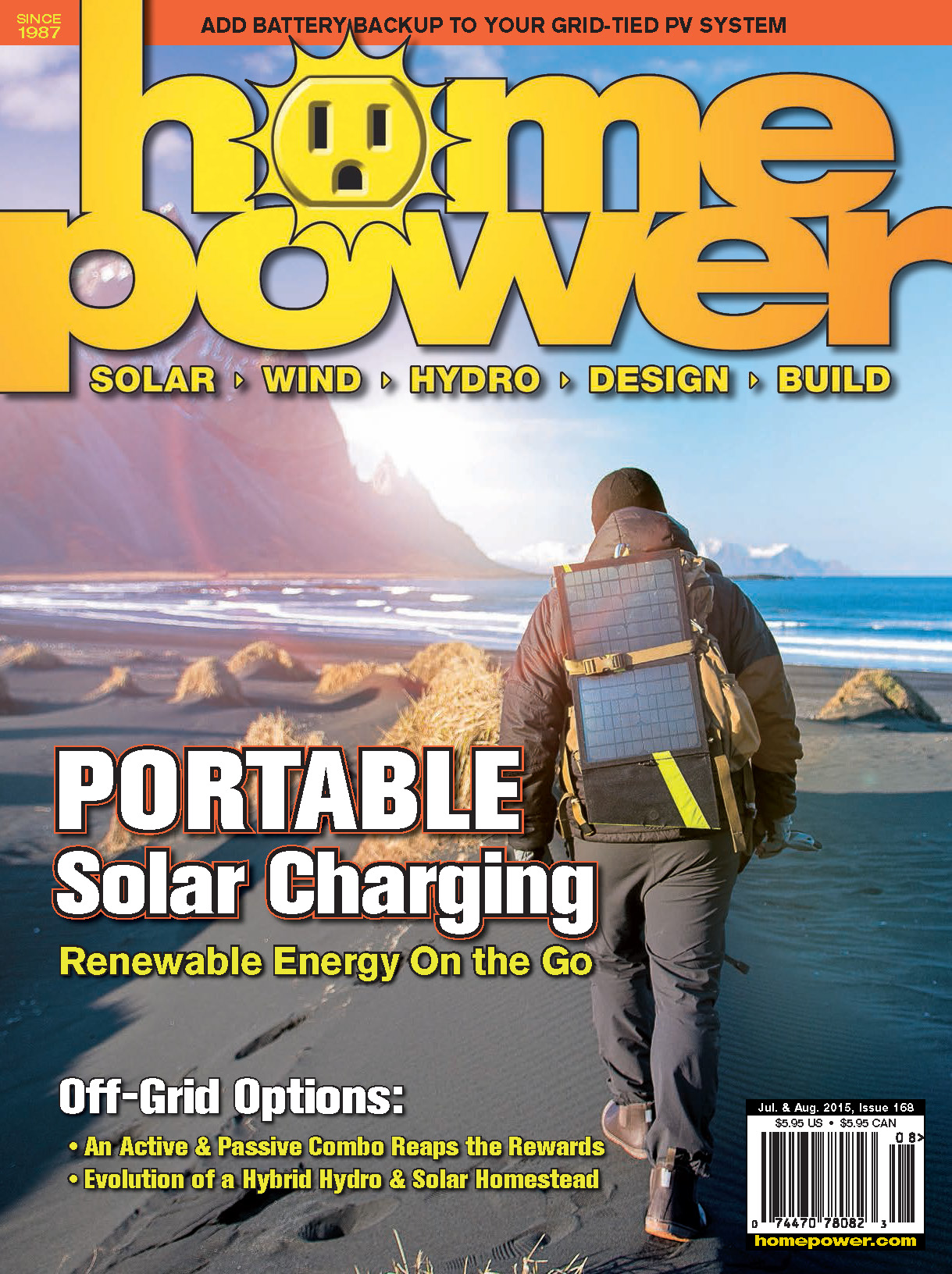 July, 2015 cover of Home Power magazine